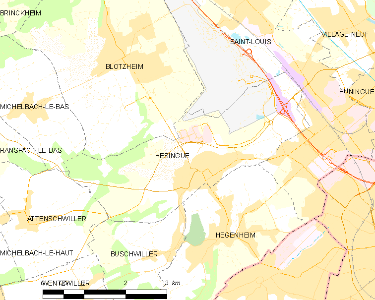 Map of French municipality